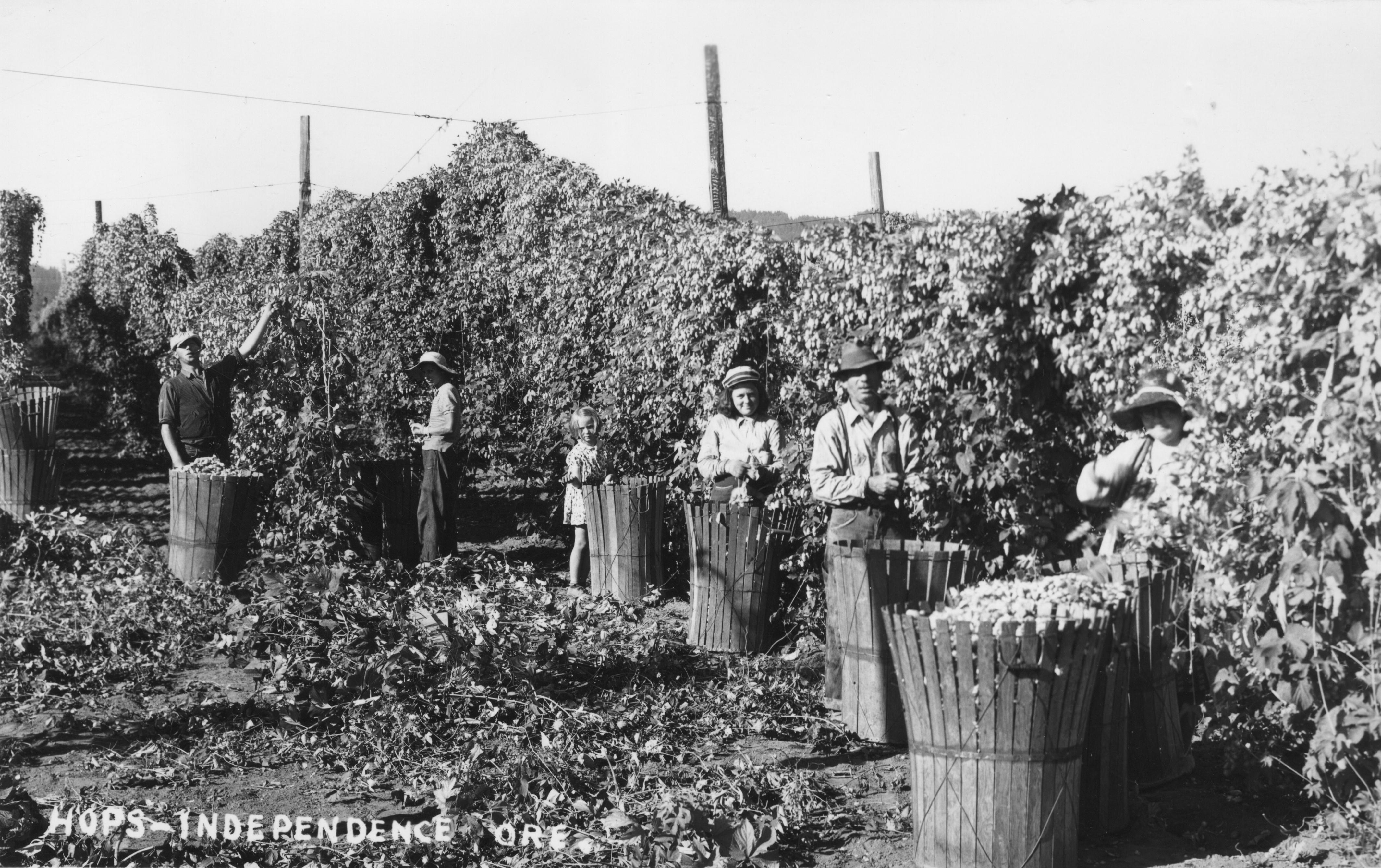 Image Title: Harvesting hops near Independence, Oregon, ca. 1940 Original Collection: Willamette Valley album Item Number: WilliamsG:WV_hops Independence Restrictions: Please contact the OSU Archives for permissions forms or information on how to cite our collections. Click here to view our digital collections. You can find this image by searching for the item number. Click here to view Oregon State University's other digital collections. We're happy for you to share this digital image within the spirit of The Commons; however, certain restrictions on high quality reproductions of the original physical version may apply. To read more about what "no known restrictions" means, please visit the OSU Archives website.